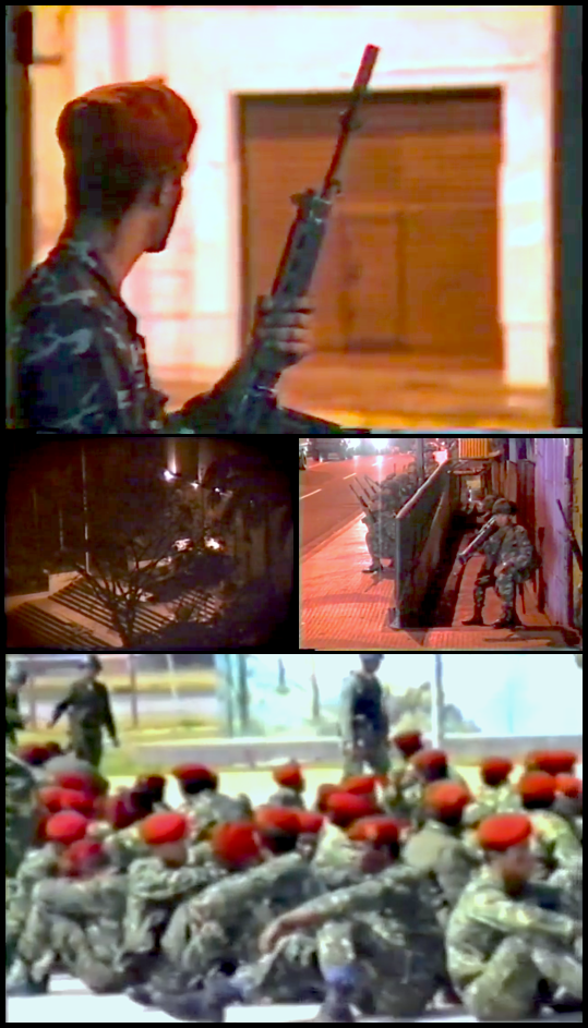 Top to bottom, left to right: MBR-200 combatant taking cover. An APC on the steps of Miraflores Palace. Government loyalist troops deploying to combat MBR-200. MBR-200 arrested following the coup attempt's failure.